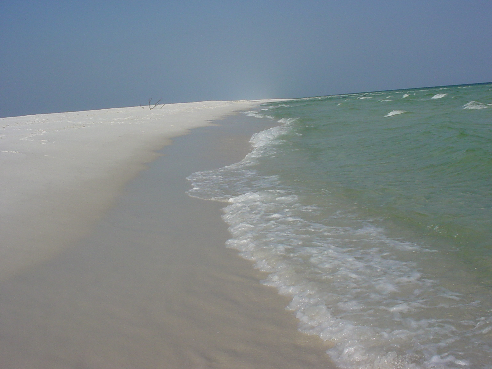 Looking east on the shore of Santa Rosa Island in a section of the Gulf Islands National Seashore.